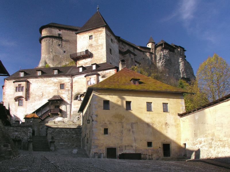 by Jurbox